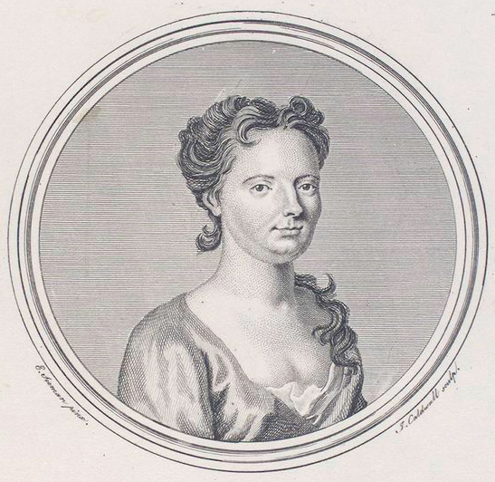 Italian opera singer Francesca Cuzzoni (1696-1778) by James Caldwall (1739-1822) after Enoch Seeman (ca. 1694-1744/1745).